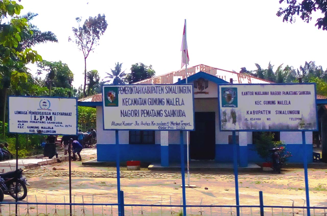 Office village of Pematang Sahkuda, Gunung Malela, Simalungun